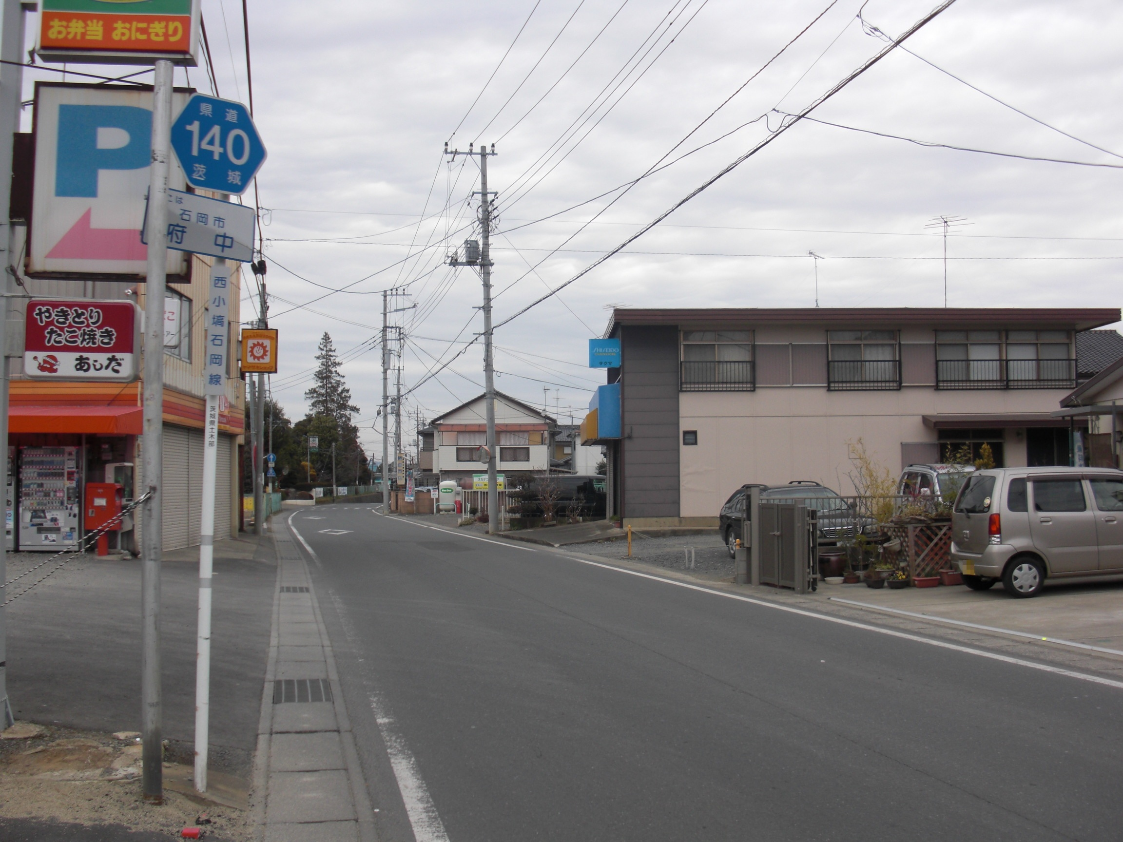 This is a scene of the Ibaraki prefectural road No.140 Nishikobanawa Ishioka line in Ishioka, Ibaraki, Japan.